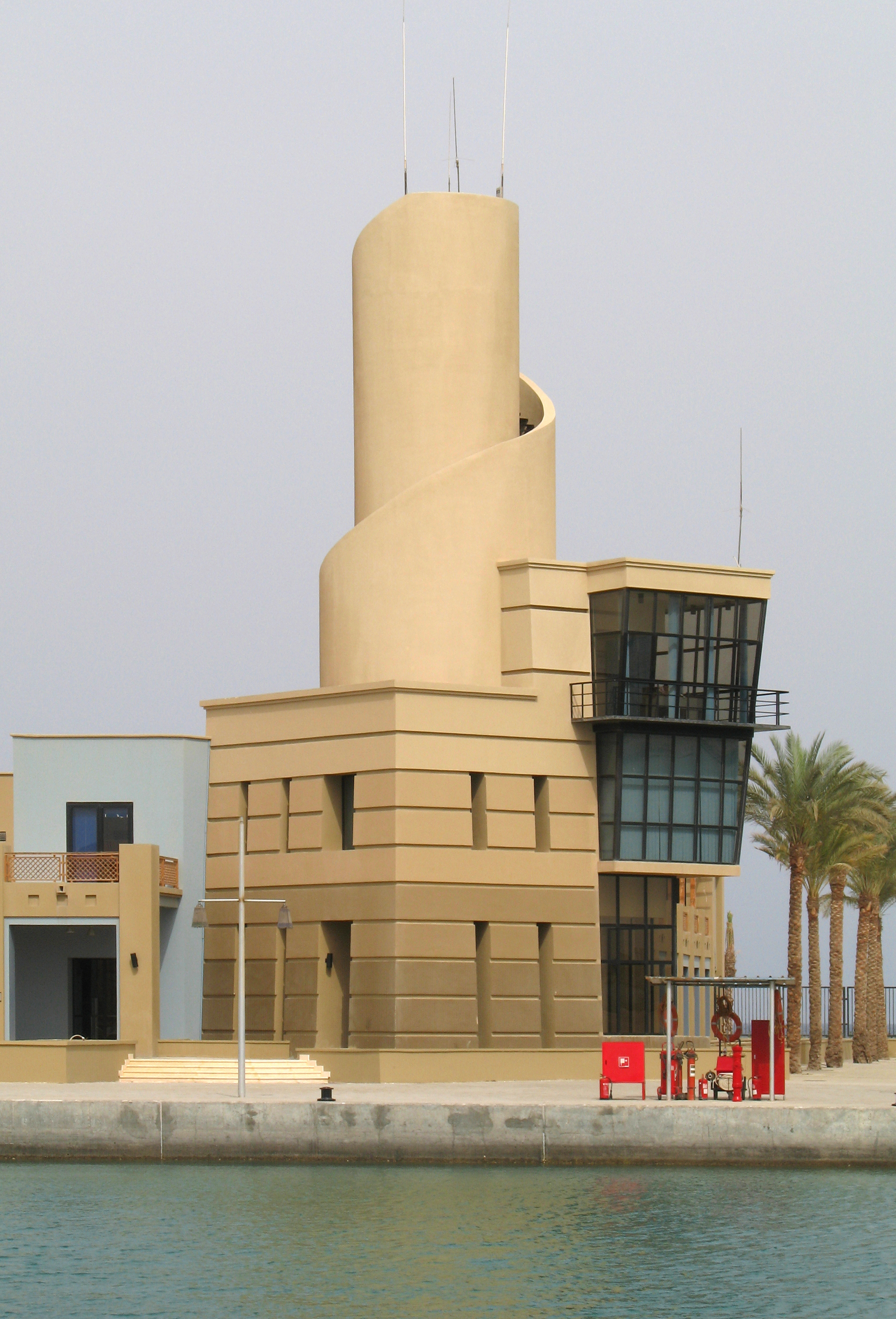 Port authority building at Port Ghalib (Marsa Alam, Red Sea, Egypt)